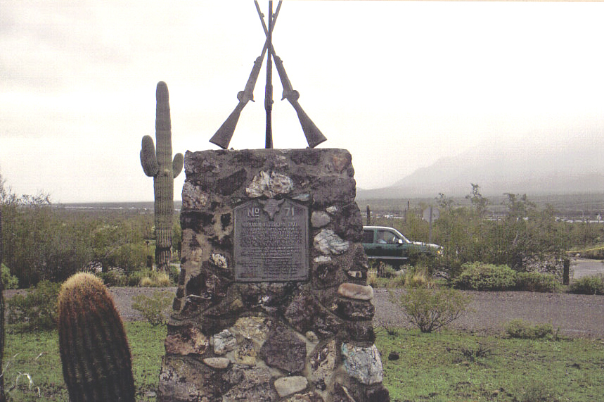 Monument at the Battlefield of Picacho Pass (April 15, 1862) marker in Arizona. Listed in the National Register of Historic Places . Plaque